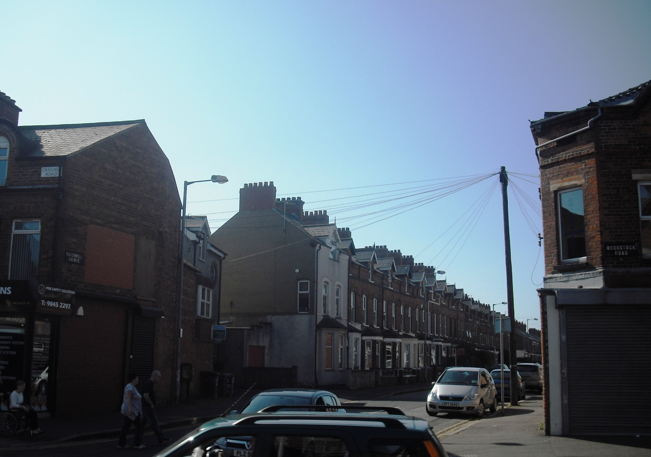 The dividing point between the Cregagh and Woodstock roads